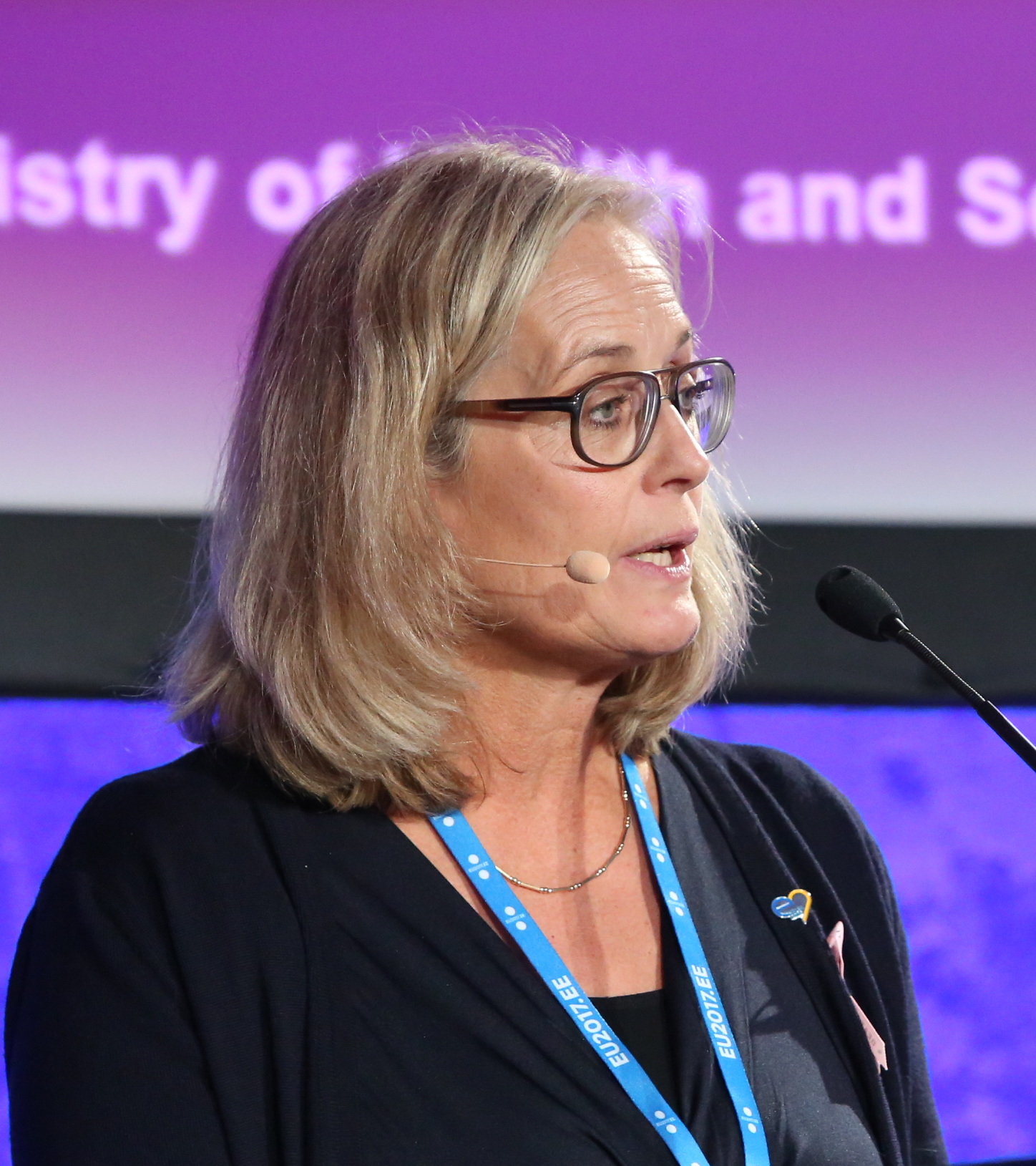 Agneta Karlsson, State Secretary to the Minister for Health Care, Public Health and Sport of Sweden, Ministry of Health, Sweden Photo: Annika Haas (EU2017EE)